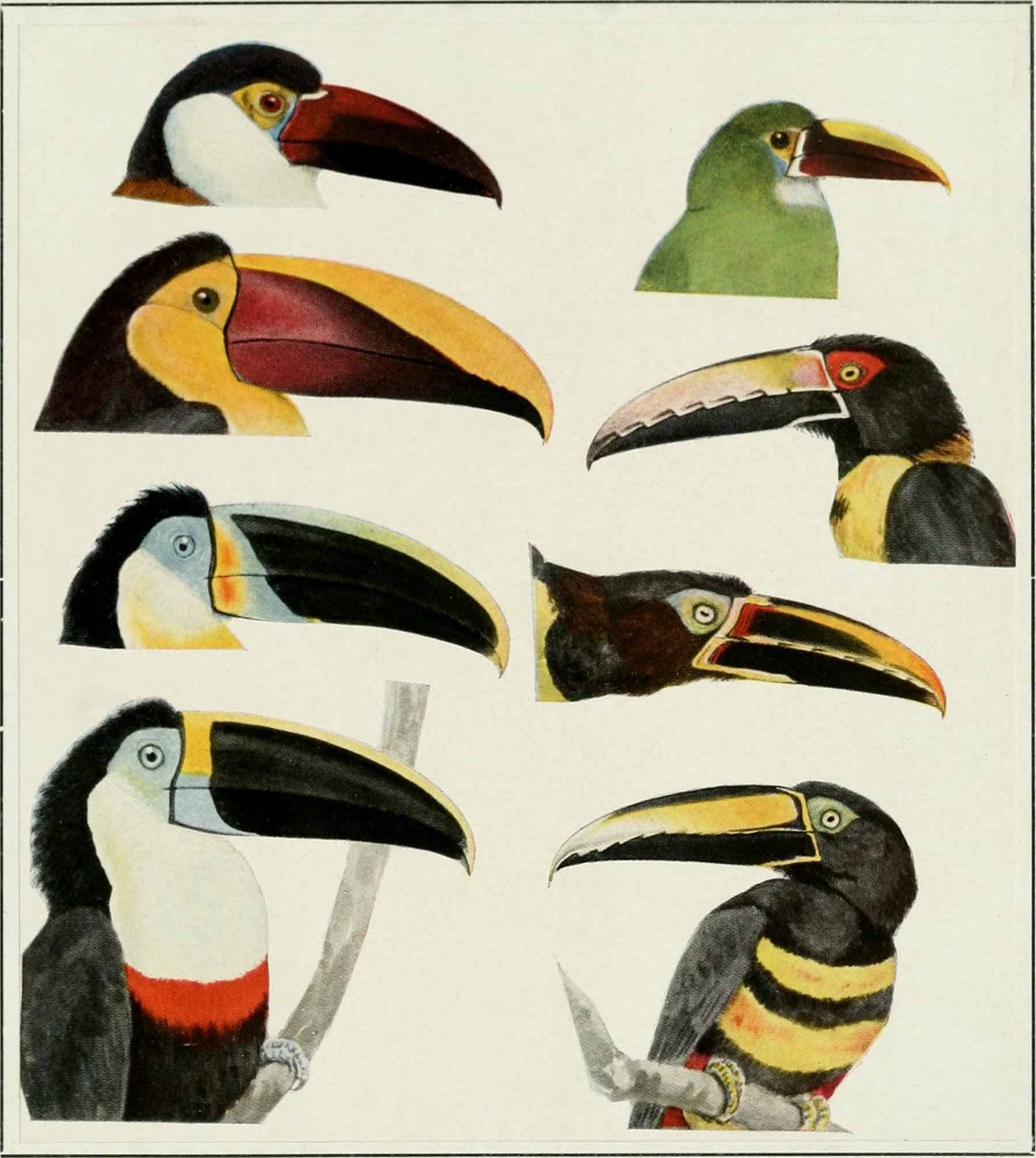 Title: The American Museum journal Year: c1900-(1918) (c190s) Authors: American Museum of Natural History Subjects: Natural history Publisher: New York : American Museum of Natural History Text Appearing Before Image: ' Text Appearing After Image: PORTRAITS OF FRUIT-EATING BIRDS OF COLOMBIA About ONC quarter natural size These toucans of Colombia were drawn in color by the artist of the expeditions, Mr. Louis Agassi?. Fuertes, directly from the freshly collected specimens. The bird at the upper left corner is described by Dr Chapman as new. Twenty-three species of this family (Ramphasticte) were collected by the Chapman K.xpcditions; 17 species among the 23 are characteristic of tropical Colombia, while 7 species belong in the Subtropical Zone, and one is found in the Temperate Zone. The birds whose portraits are shown live in the Tropical Zone except the upper two which are Sub- tropical. The species above are as follows; Andigena nigrirostris occidetilalis Chapman Autacorliynchus albivitla albivitta (Boiss) Ramphastos swainsoni Gould Pteroglossus torquatus nuchalis Cabanis Ramphastos cilreolamus Gould Pteroglossus castanotis castanotis Gould Ramphastos culminatus Gould Pteroglossus pluricindus Gould